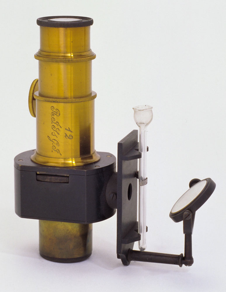 AuthorUnknownDescription